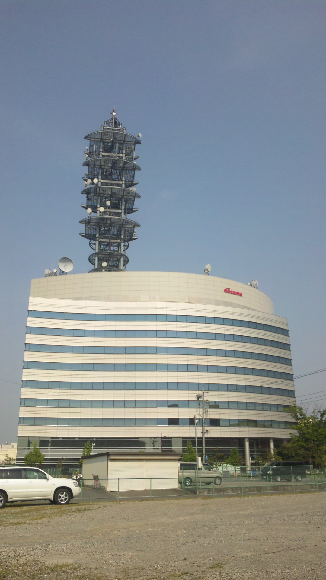 NTT DOCOMO GIFU